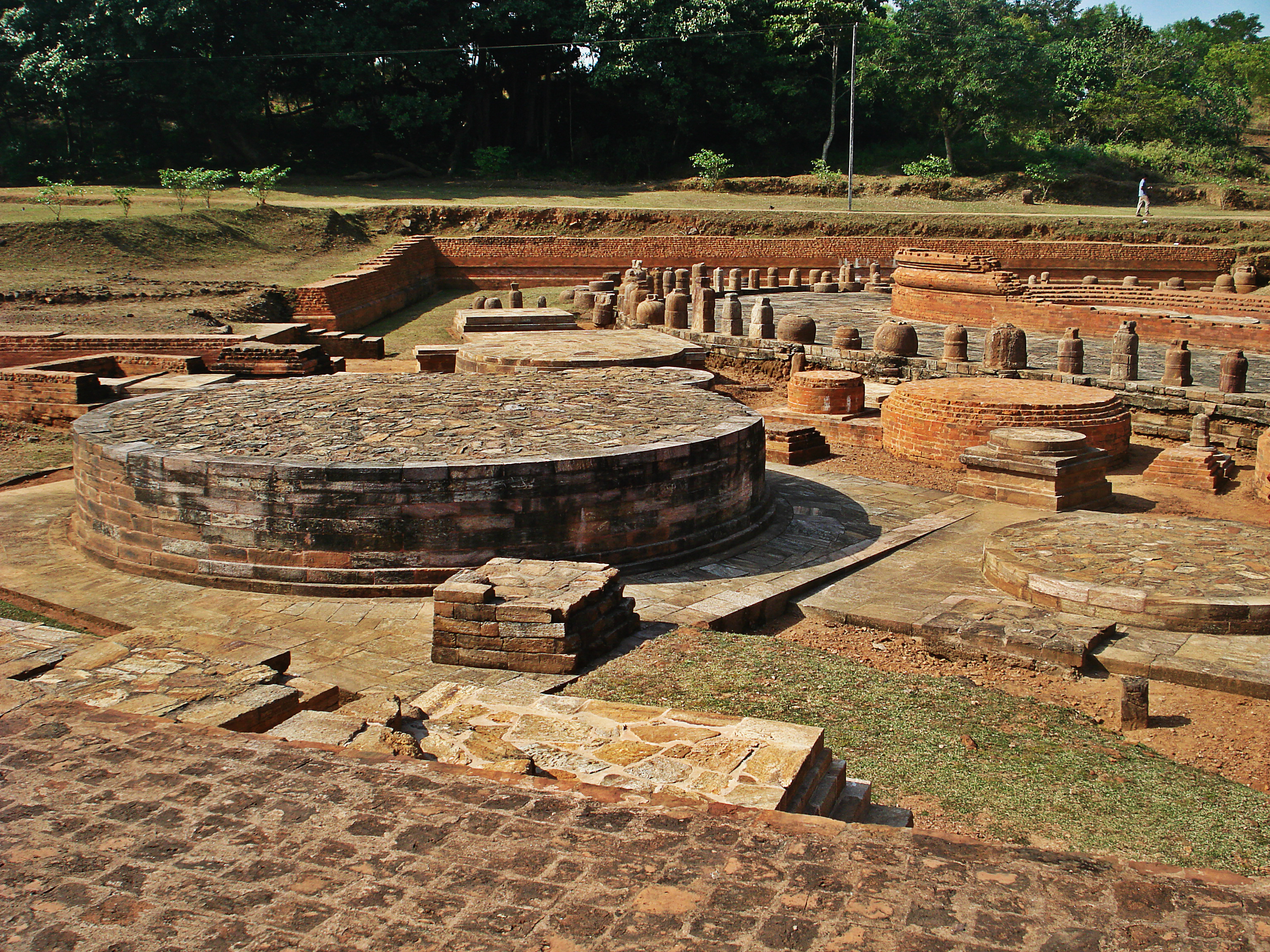 Complete view of the chaityagriha stupa complex in Lalitgiri from a high ground